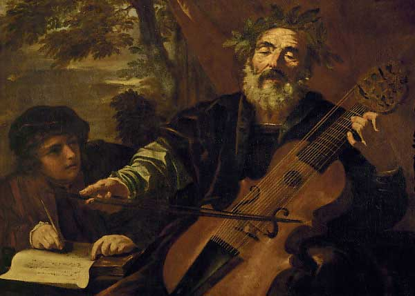 Pier Francesco Mola (1612-1666): Homer. Homer is playing renaissance lira da gamba.